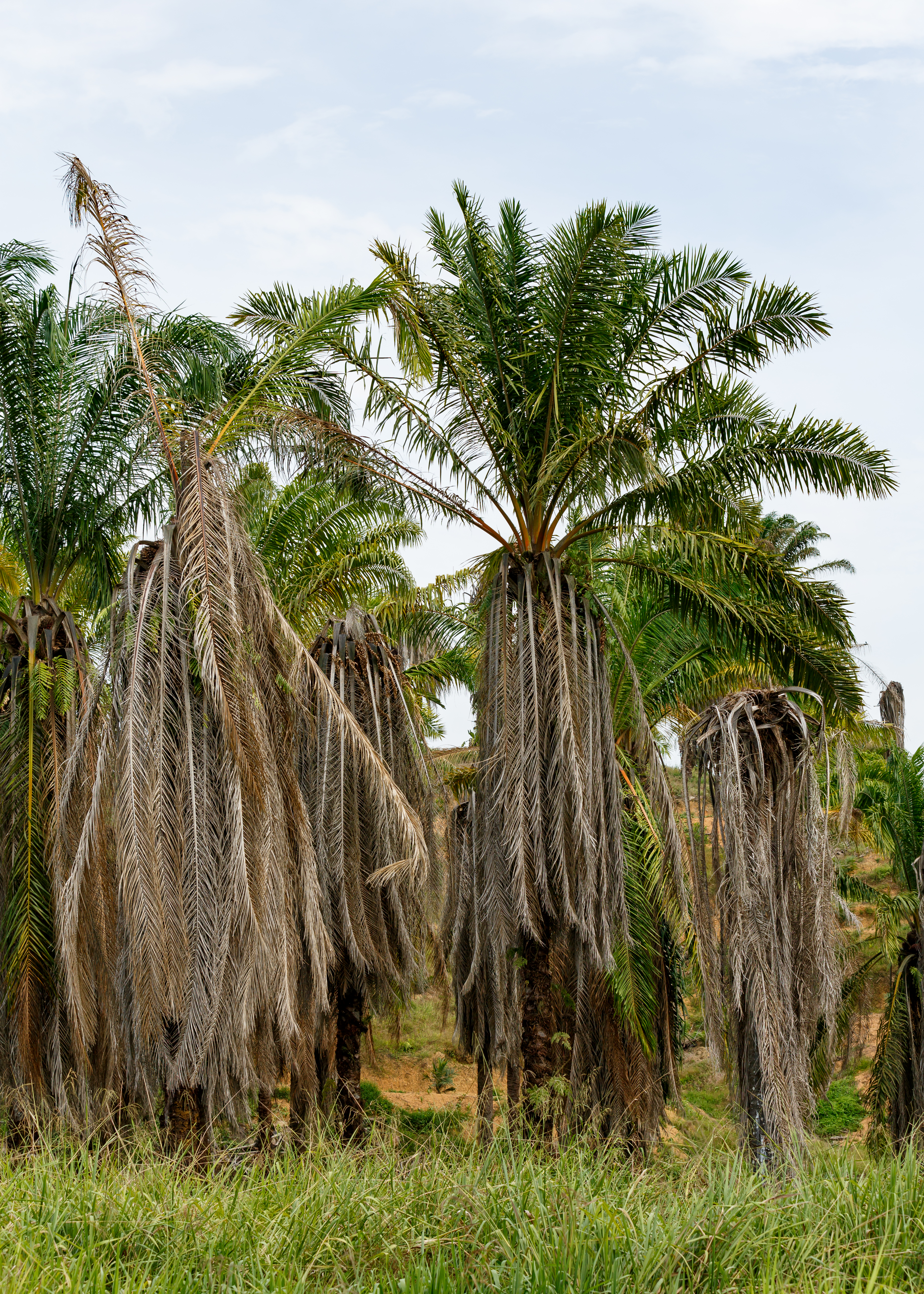 Kinabatangan, Sabah: Poisoned oilpalm near Kinabatangan bridge to make way for next generation of plants